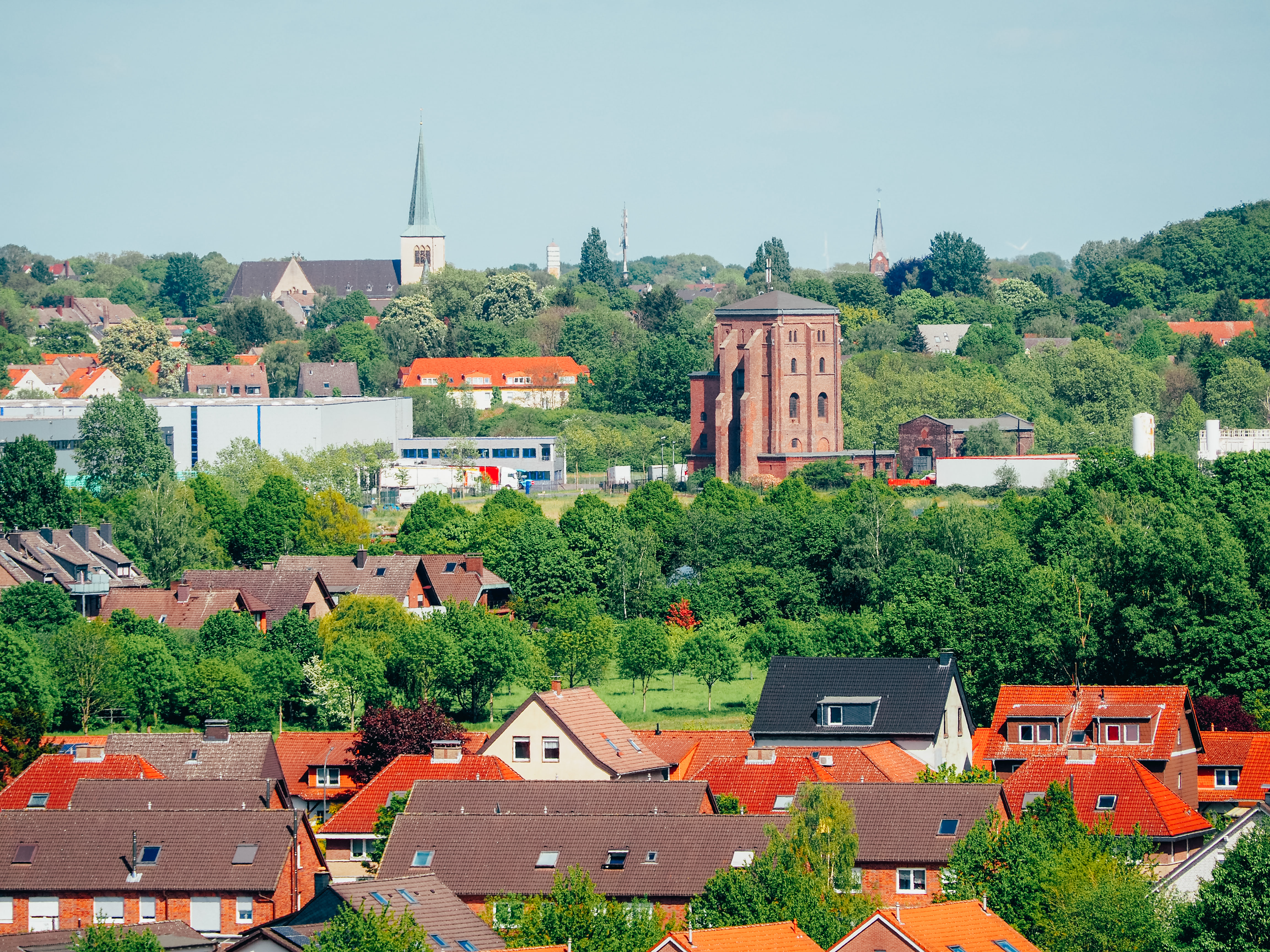 Dortmund-Lindenhorst